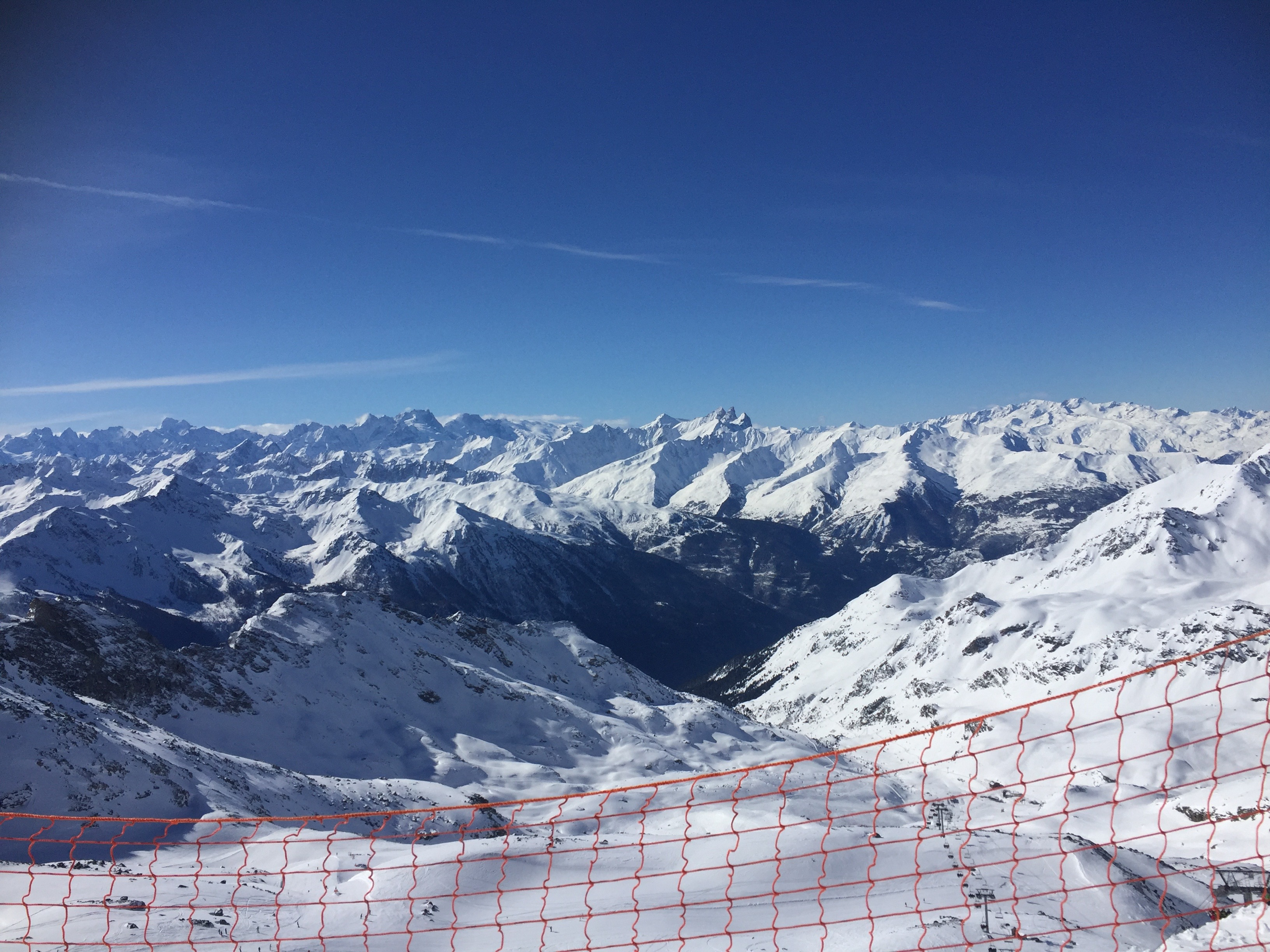 Val Thorens